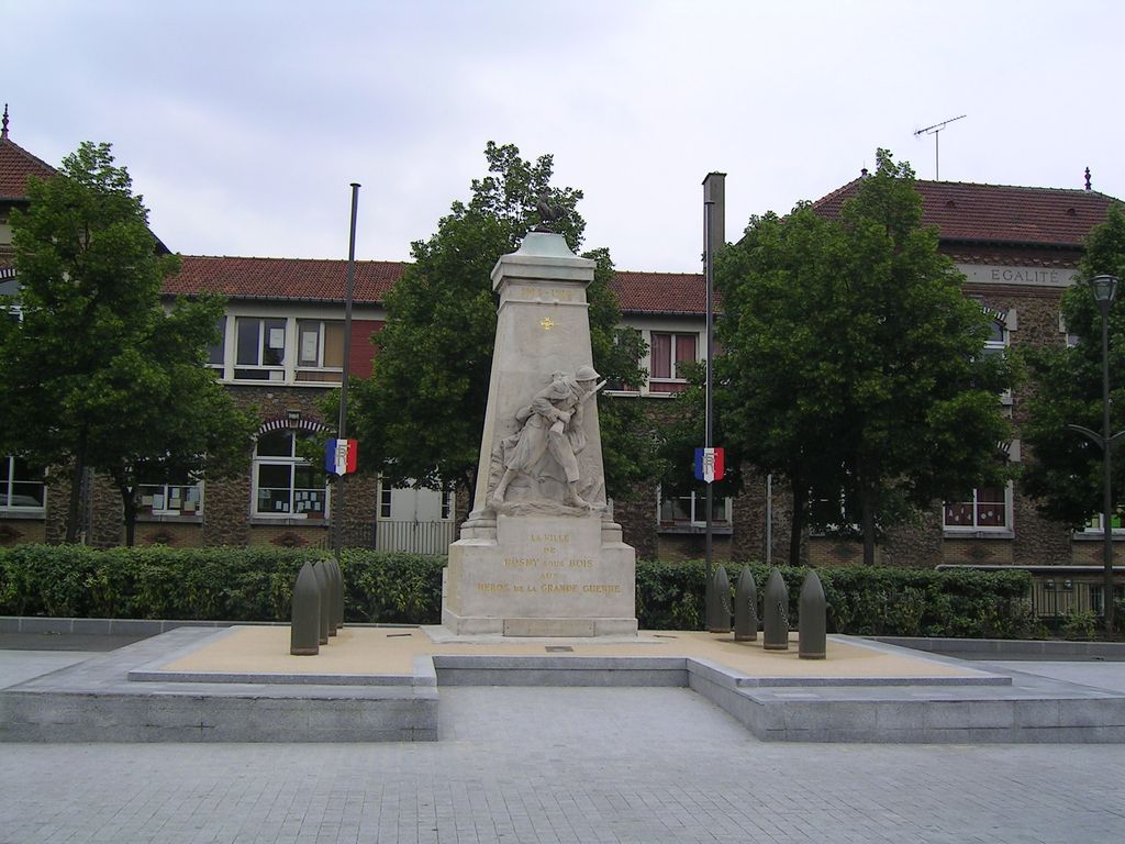 Monument aux Morts, Place des Martyrs Photo personnelle (own work) de Marianna